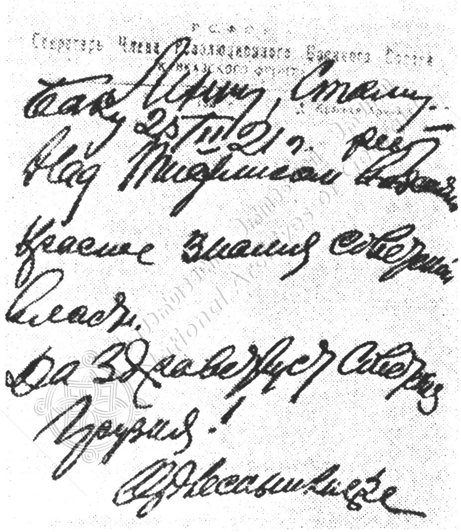 The telegram sent by Sergo Orjonikidze to Lenin and Stalin on the day of occupation of Tbilisi, the capital of Georgia, on 25 February 1921. The text reads in